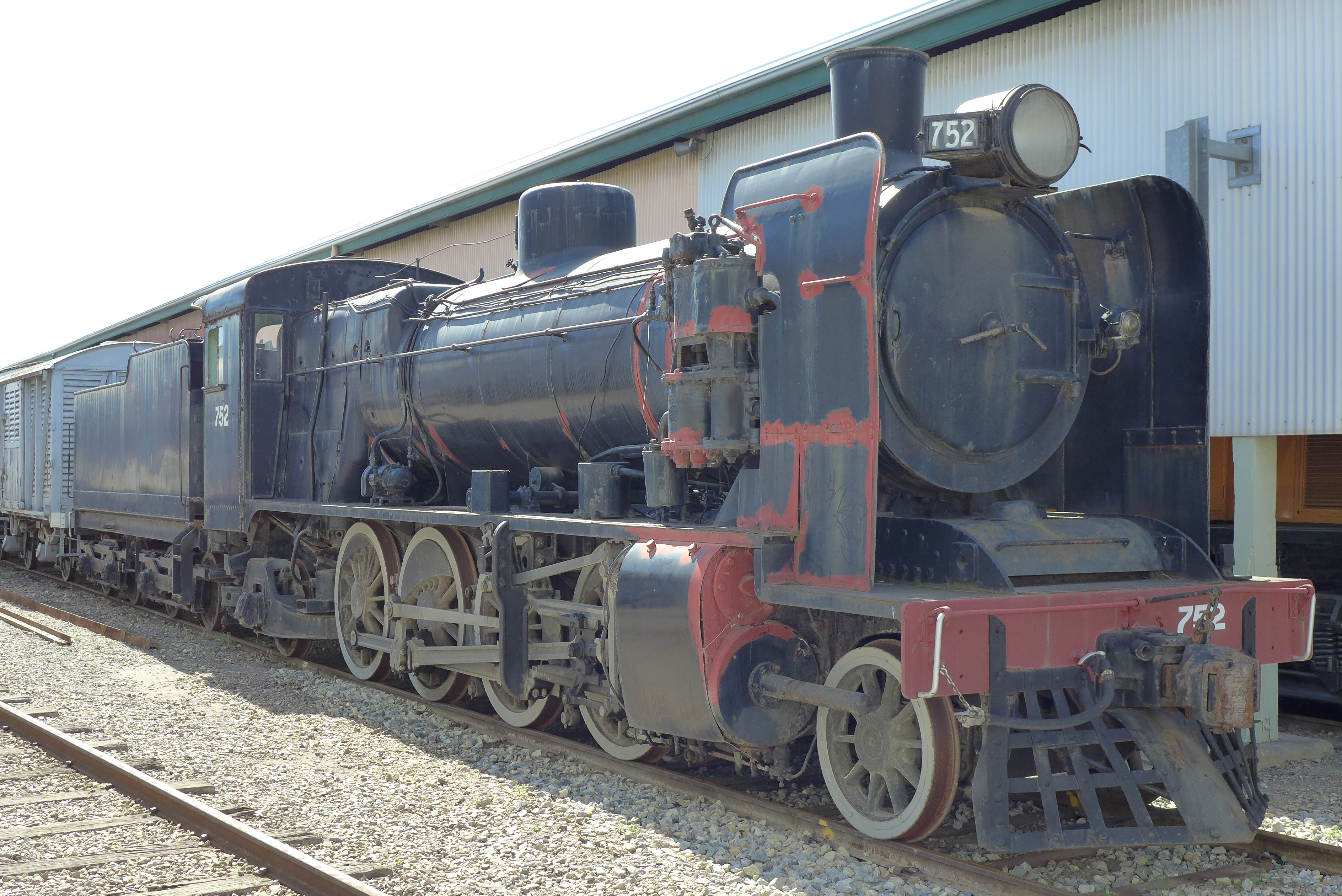 Preserved ex-South Australian Railways 750 class no. 752, on display at the National Railway Museum (Port Adelaide).